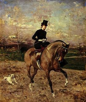 Work by Giovanni Boldini